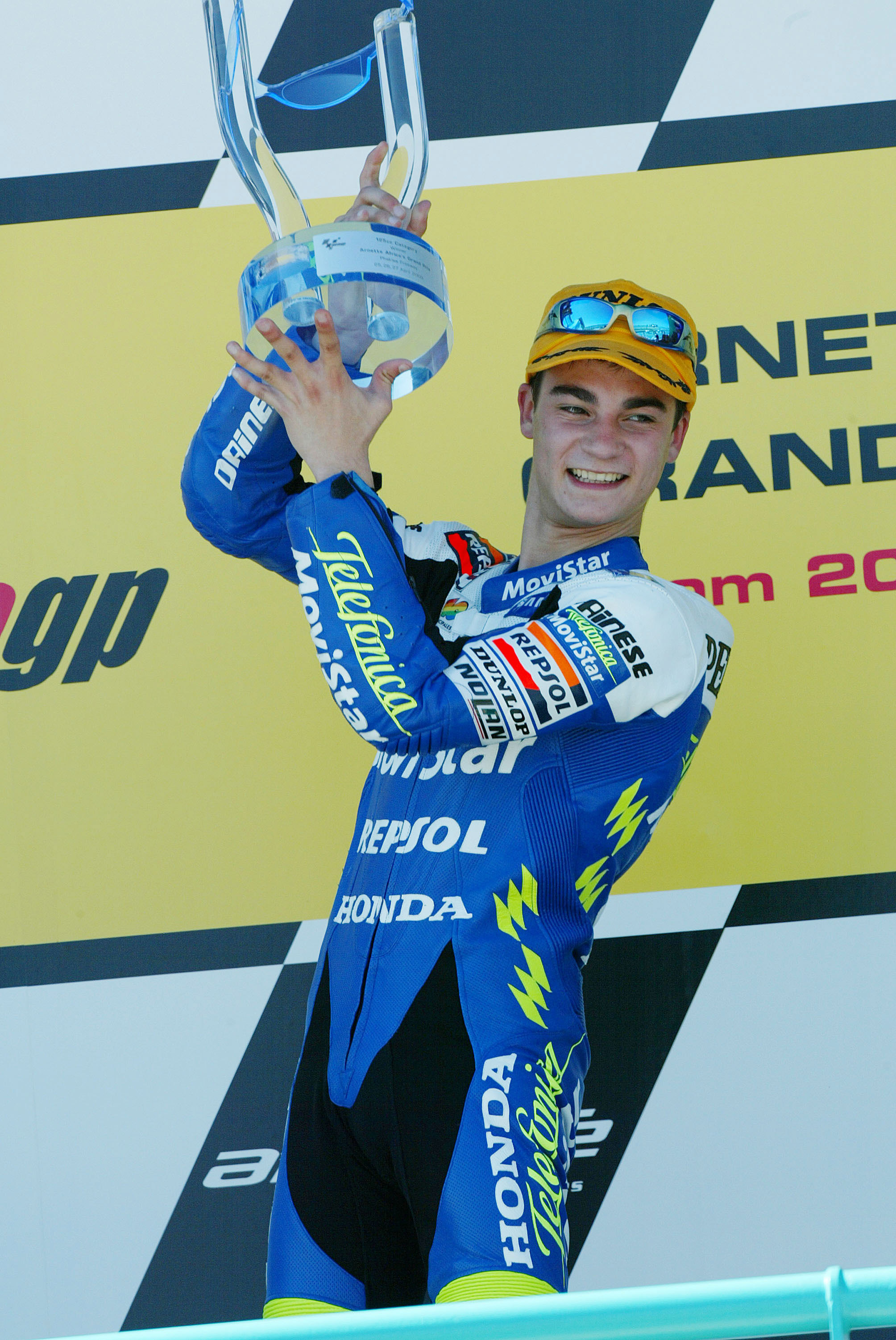 Dani Pedrosa, celebrating on the podium and lifting his first place trophy at the 2003 South African Grand Prix.